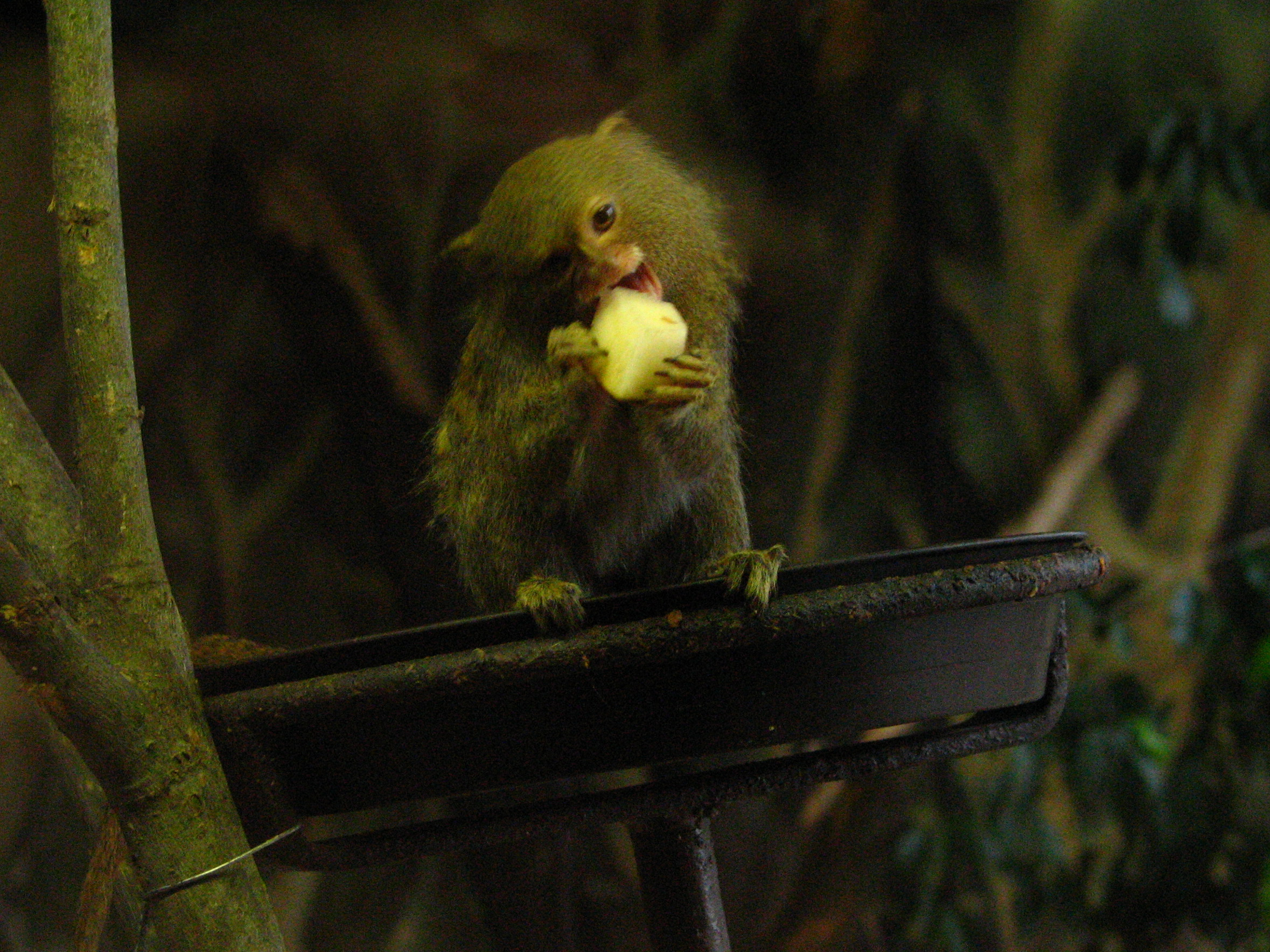 Pygmy Marmoset, ZOO Dvůr Králové, Czech Republic